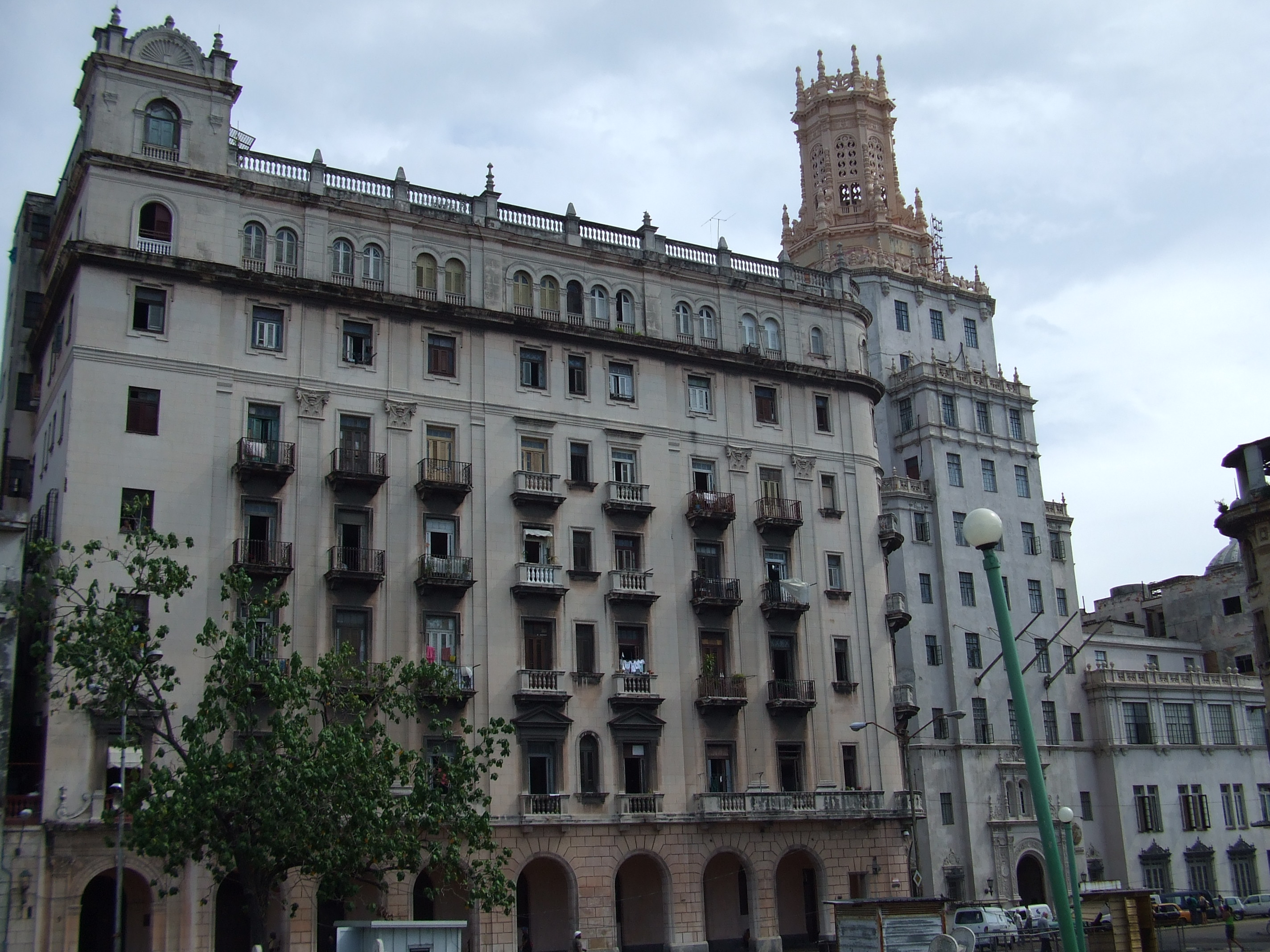 Buildings in Chinatown, Centro Habana